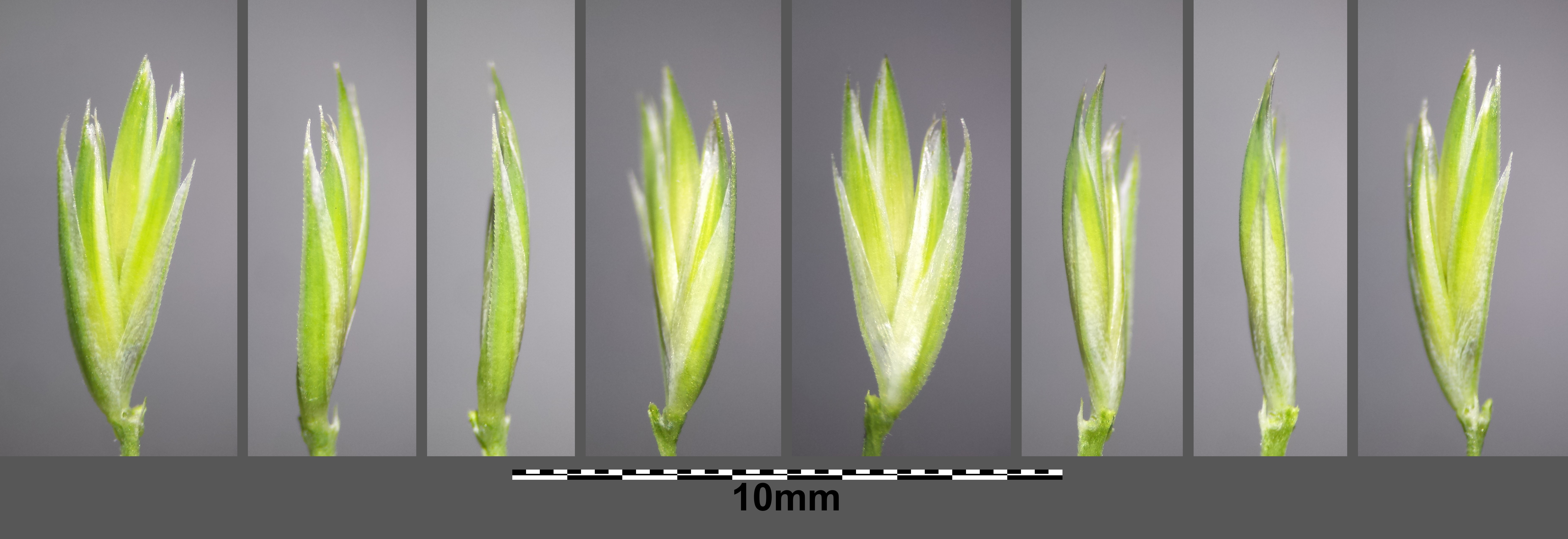 Spikelet Taxonym: Dactylis polygama ss Fischer et al. EfÖLS 2008 ISBN 978-3-85474-187-9 Location: Rohrwald, district Korneuburg, Lower Austria - ca. 300 m a.s.l. Habitat: Carpinion betuli